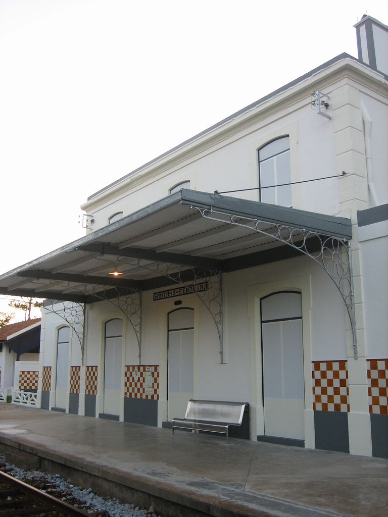 The train station of the freguesias Santana and Ferreira-a-Nova